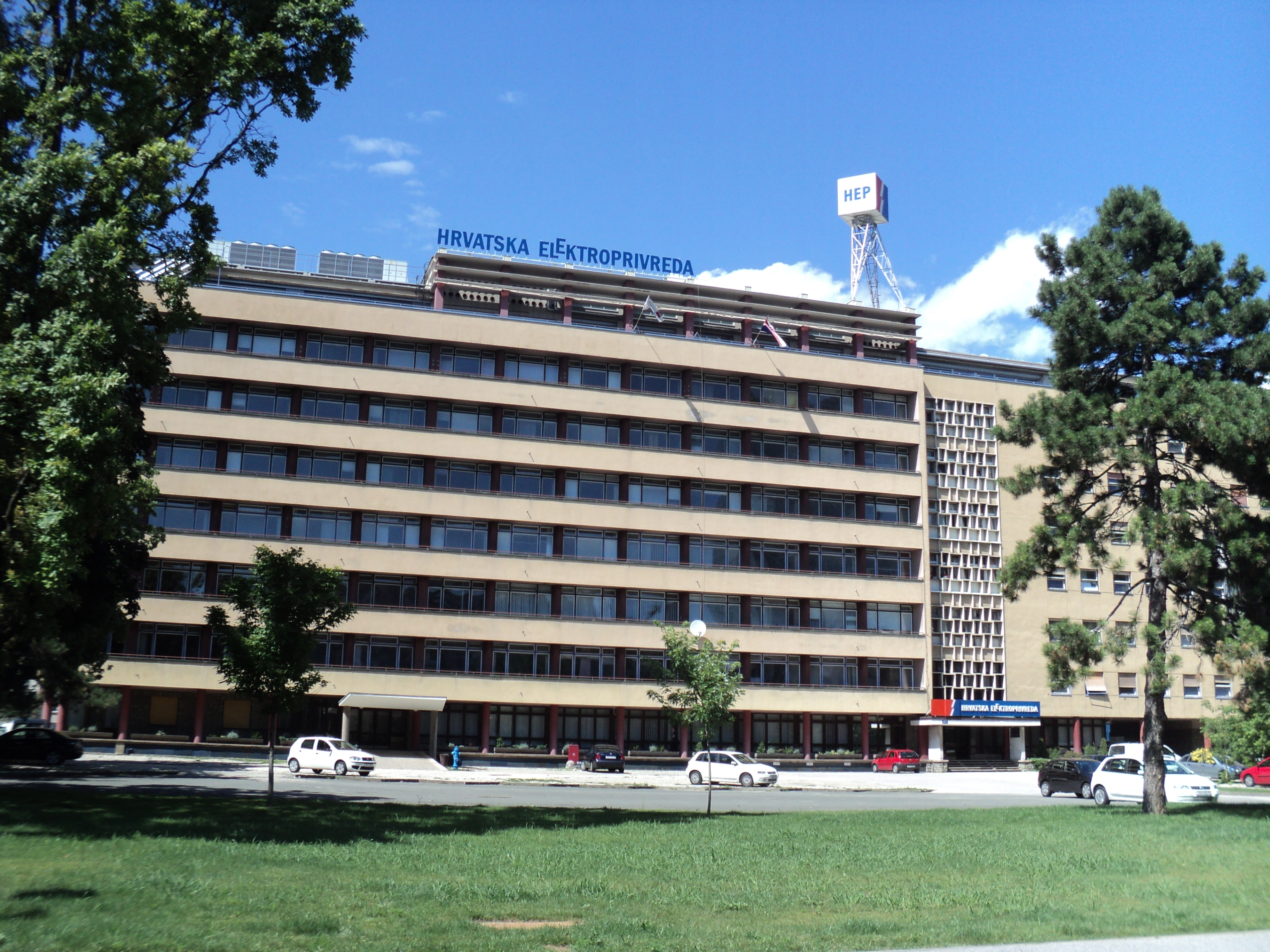 Hrvatska elektroprivreda building in City of Vukovar Street, Zagreb.